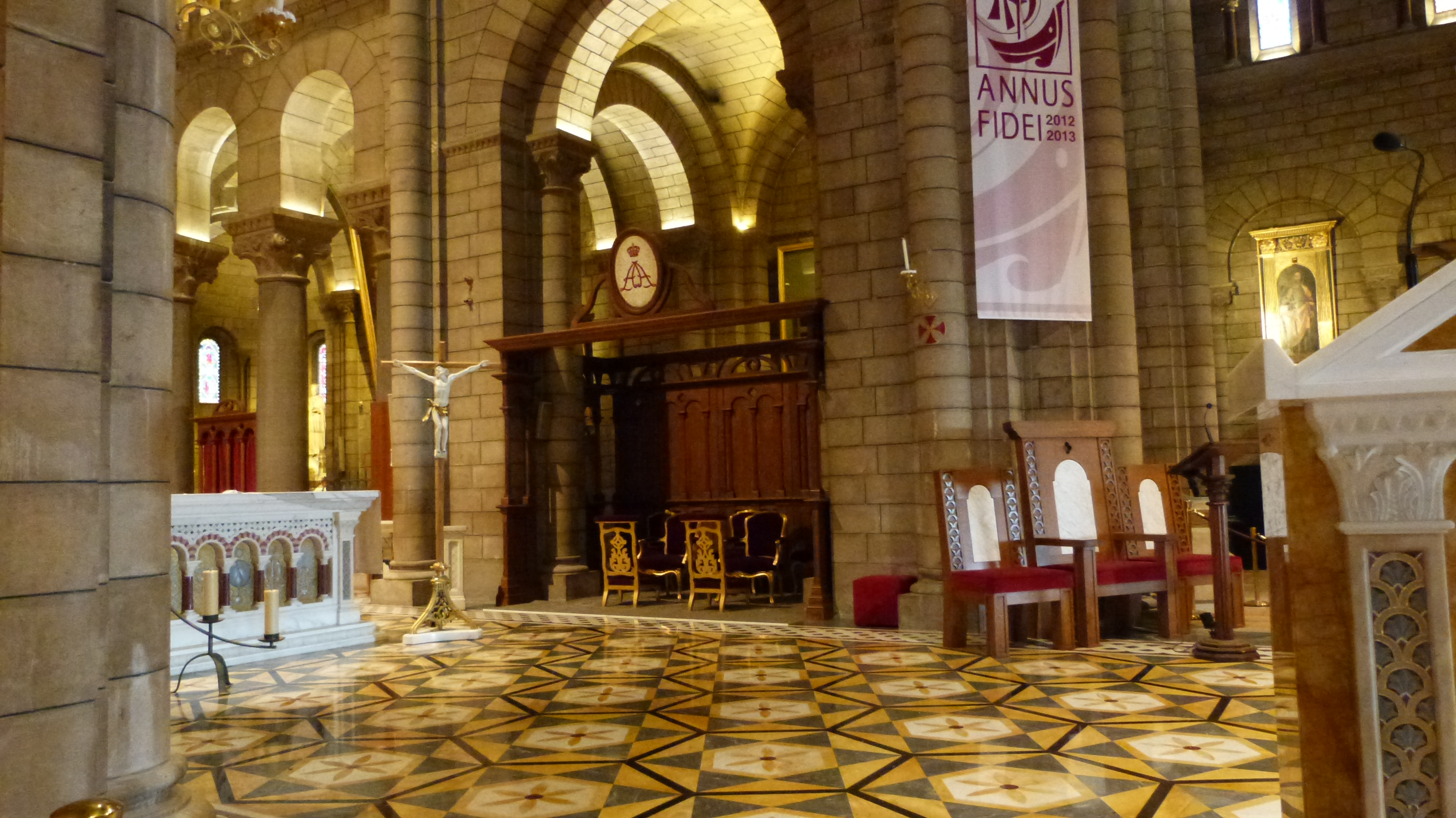 Prince- and Clergysit in the Saint Nicholas Cathedral, Monaco